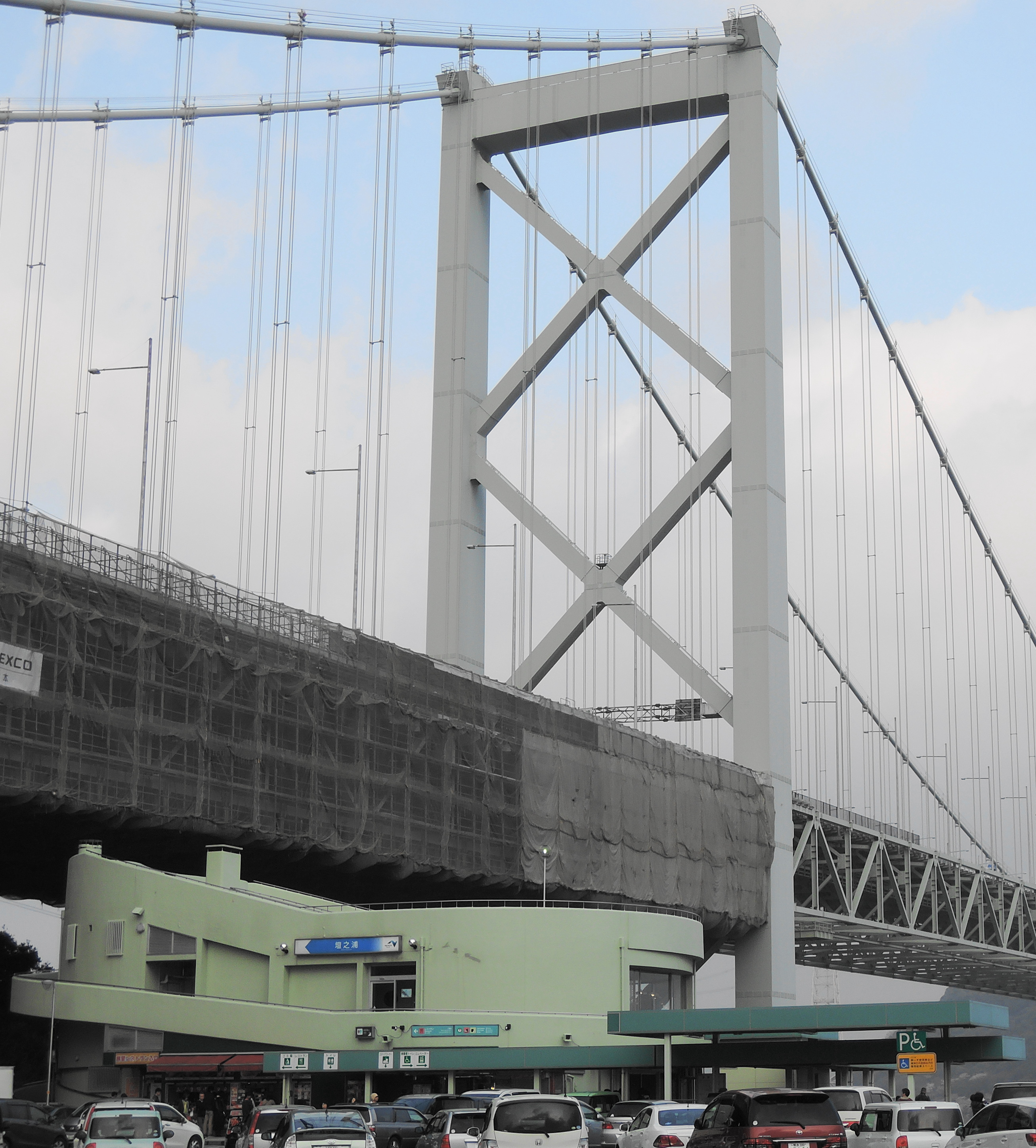 Dannoura Pakingu Area in Yamaguchi Prefecture, Japan